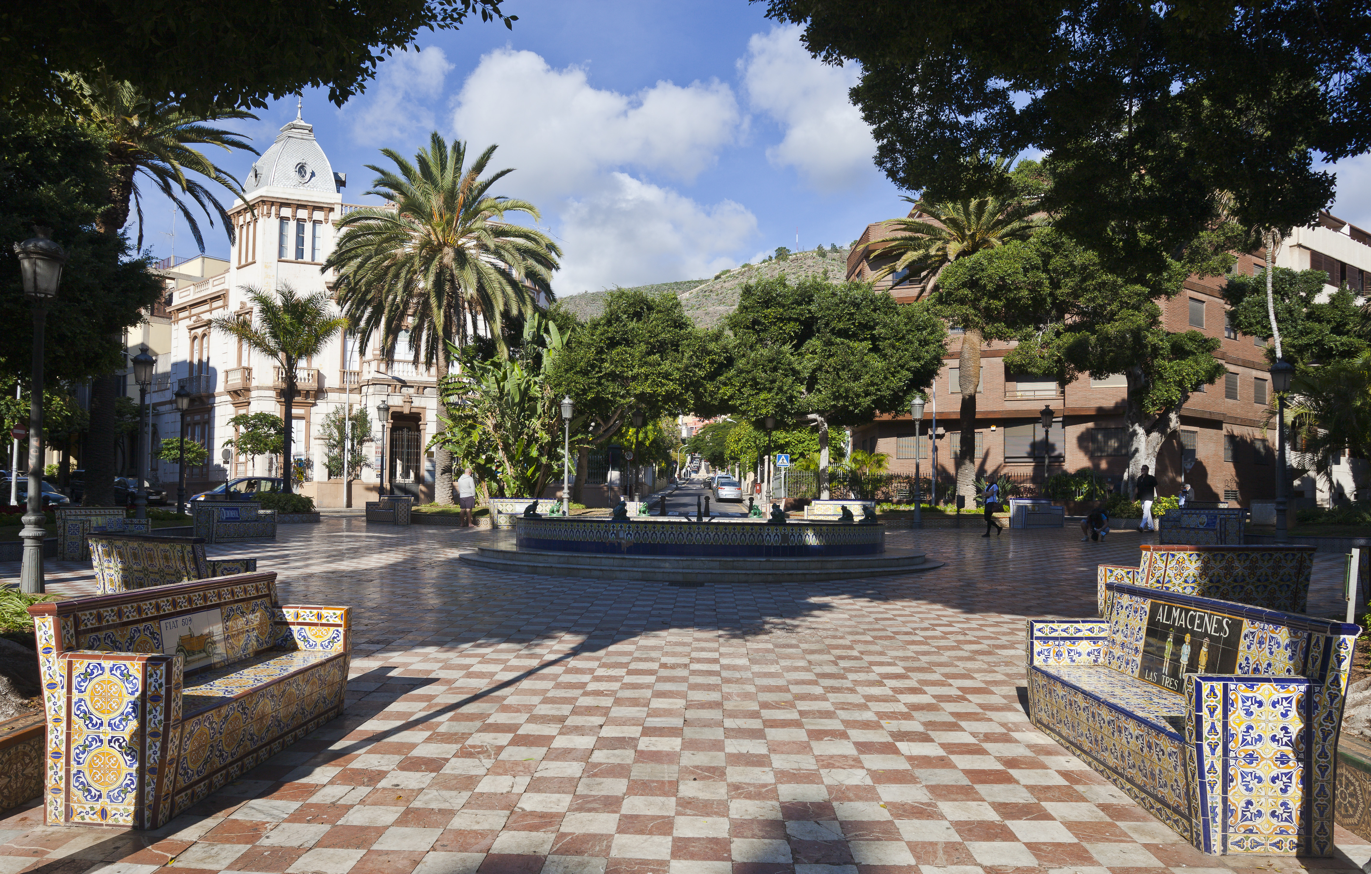 Square July 25th, Santa Cruz de Tenerife, Spain